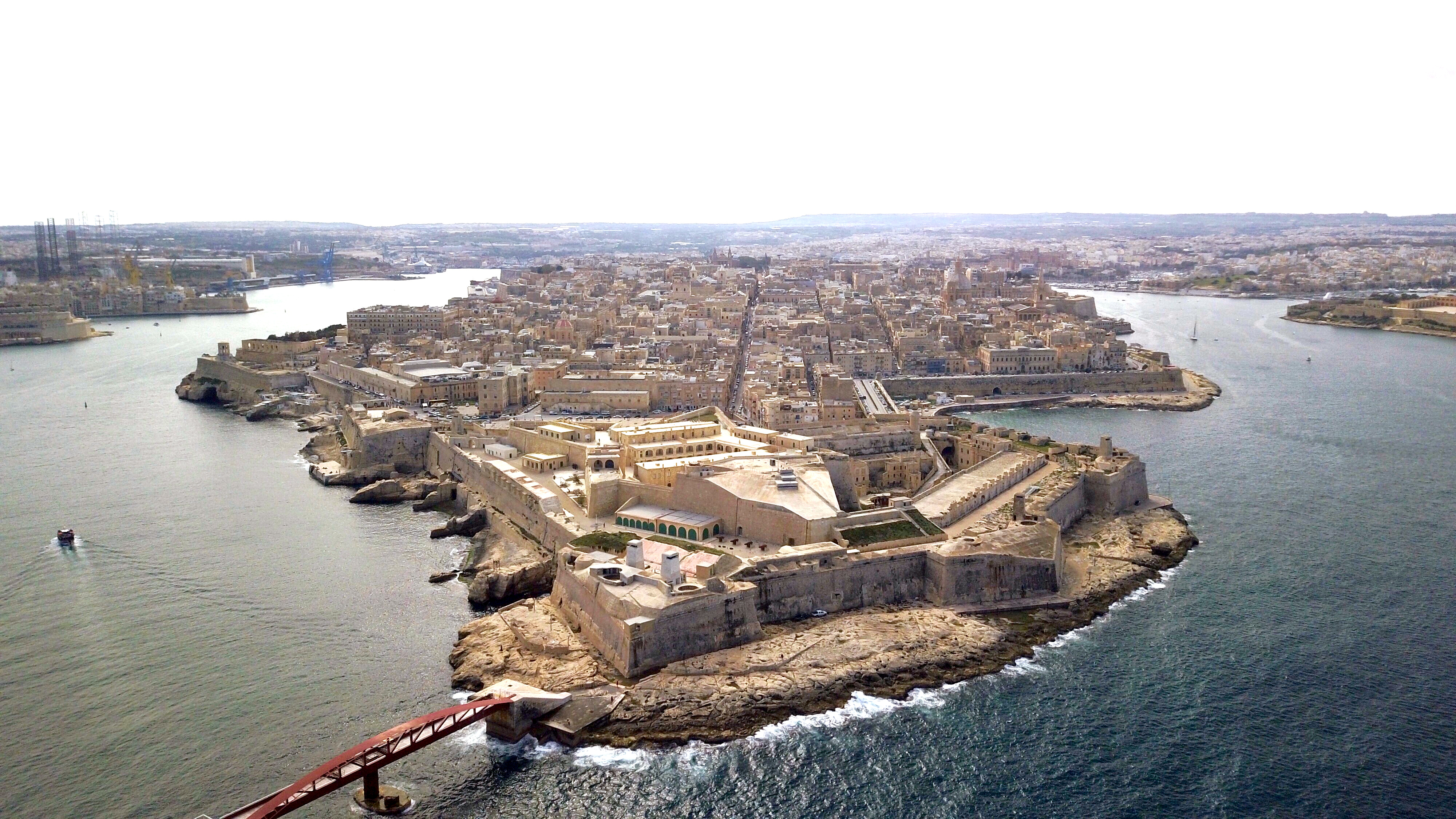 Terrific drone shot I took today of the old town in Valette, Malta